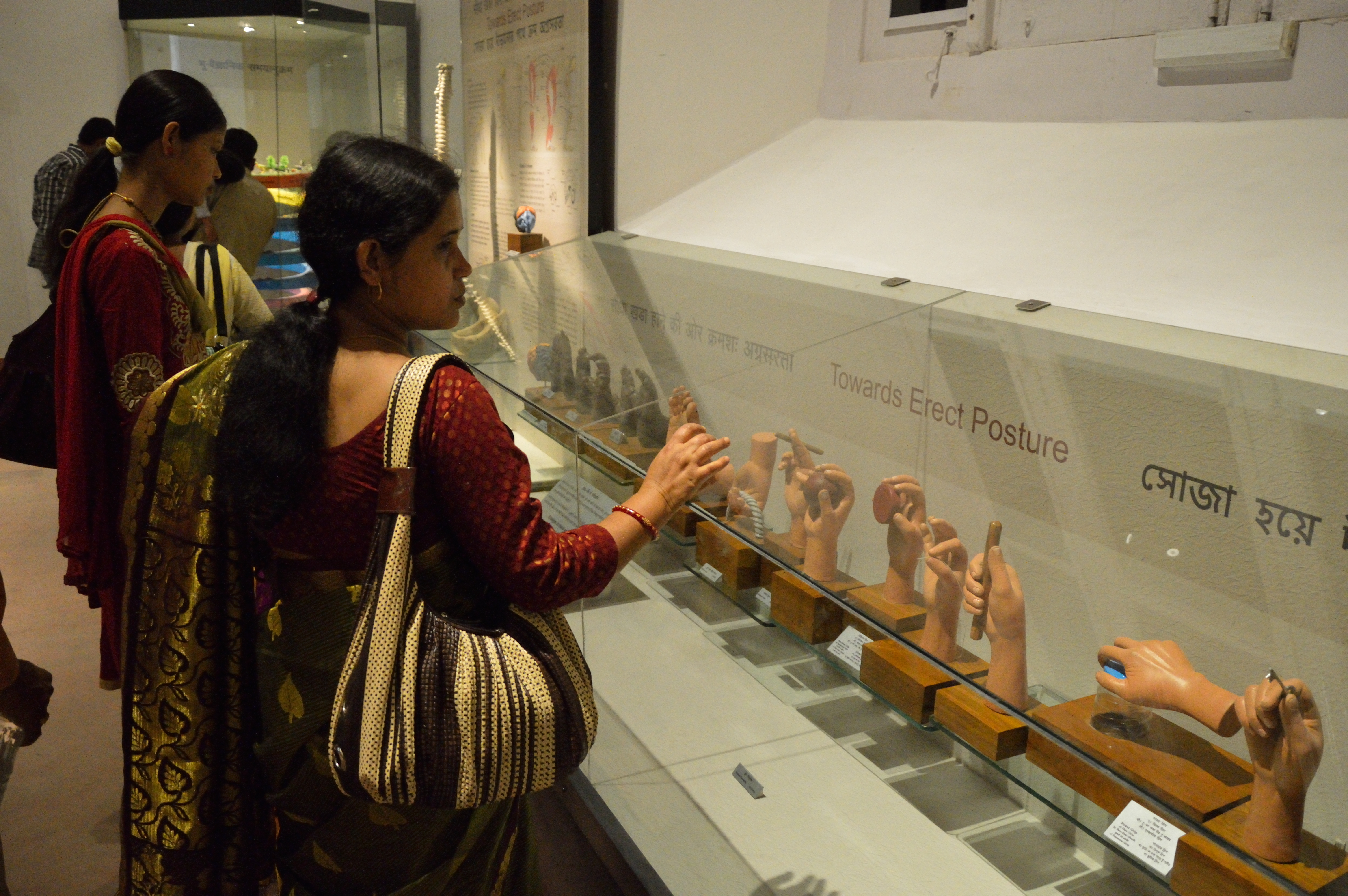 Photographed in Kolkata.